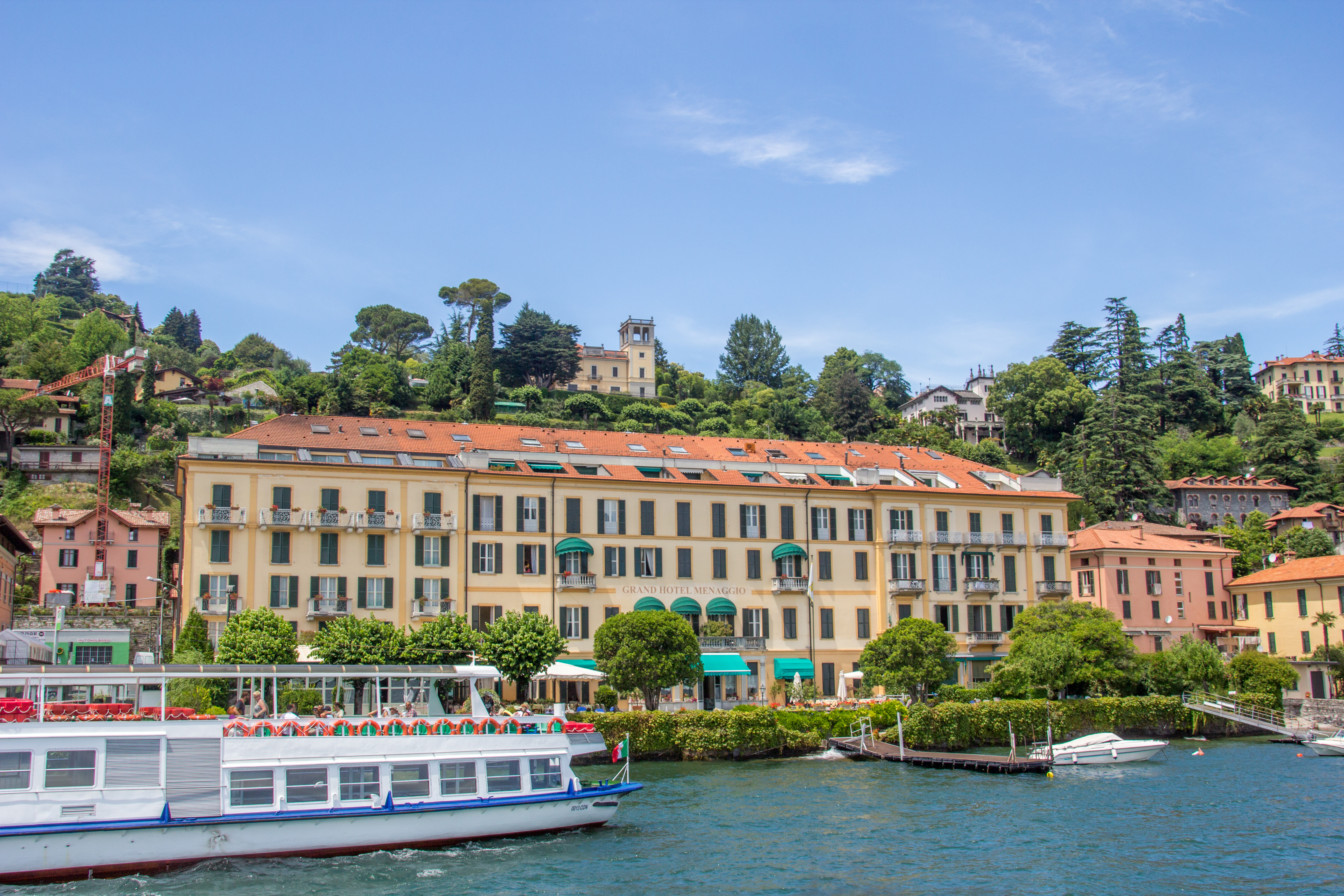 Lake Como. Wikimania 2016, Esino Lario, Italy